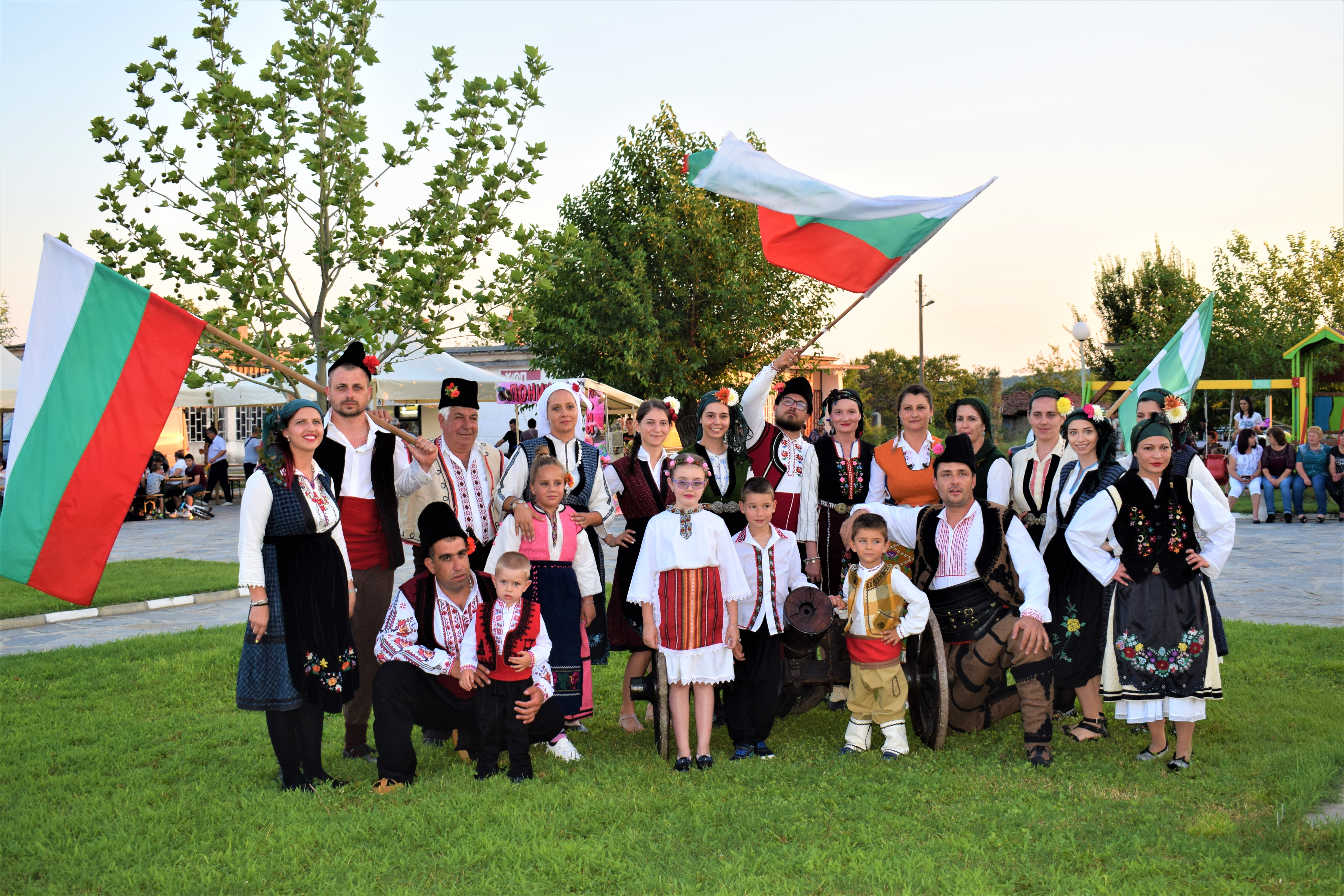 Ivan Vazovo Cathedral 2020